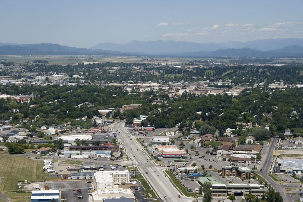 Highway 93, Kalispell, Montana